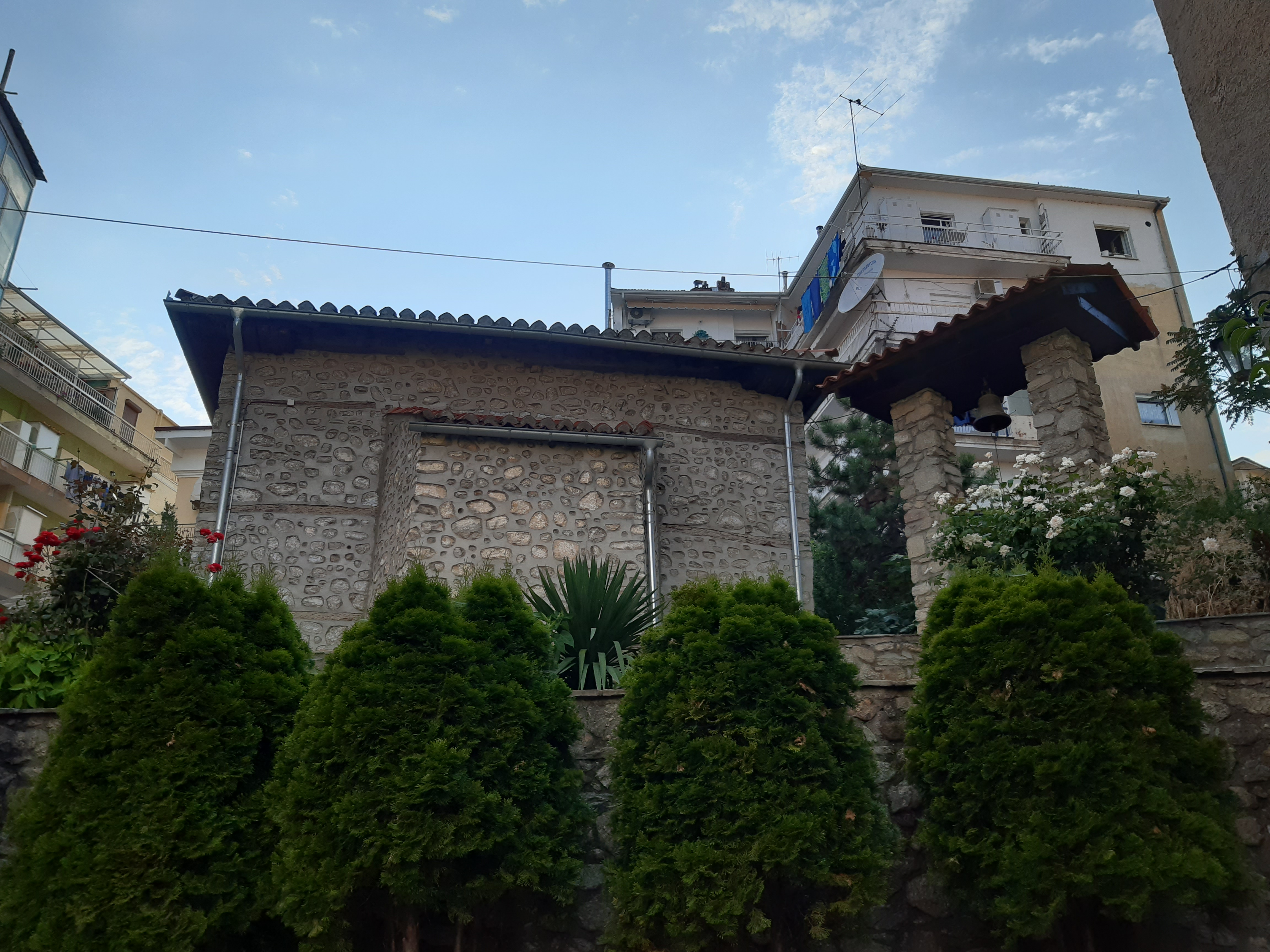 Saint Nicholas and Saint Charalambos Church, Kastoria